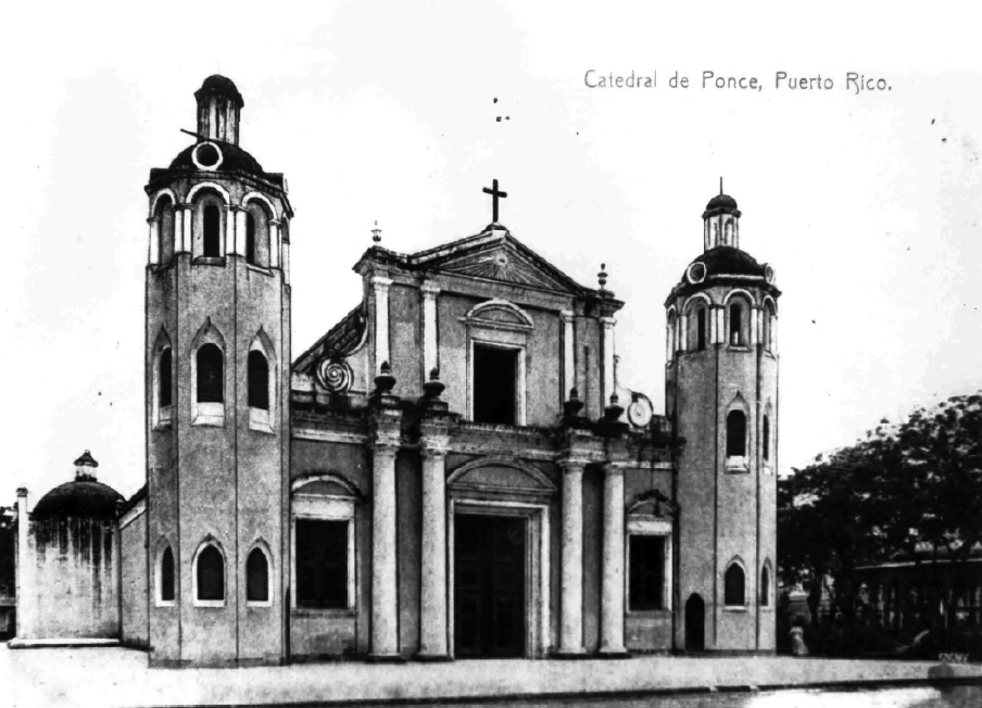 The Ponce Cathedral, in Ponce, Puerto Rico. With the original neoclassical façade and towers destroyed in 1918 earthquake.